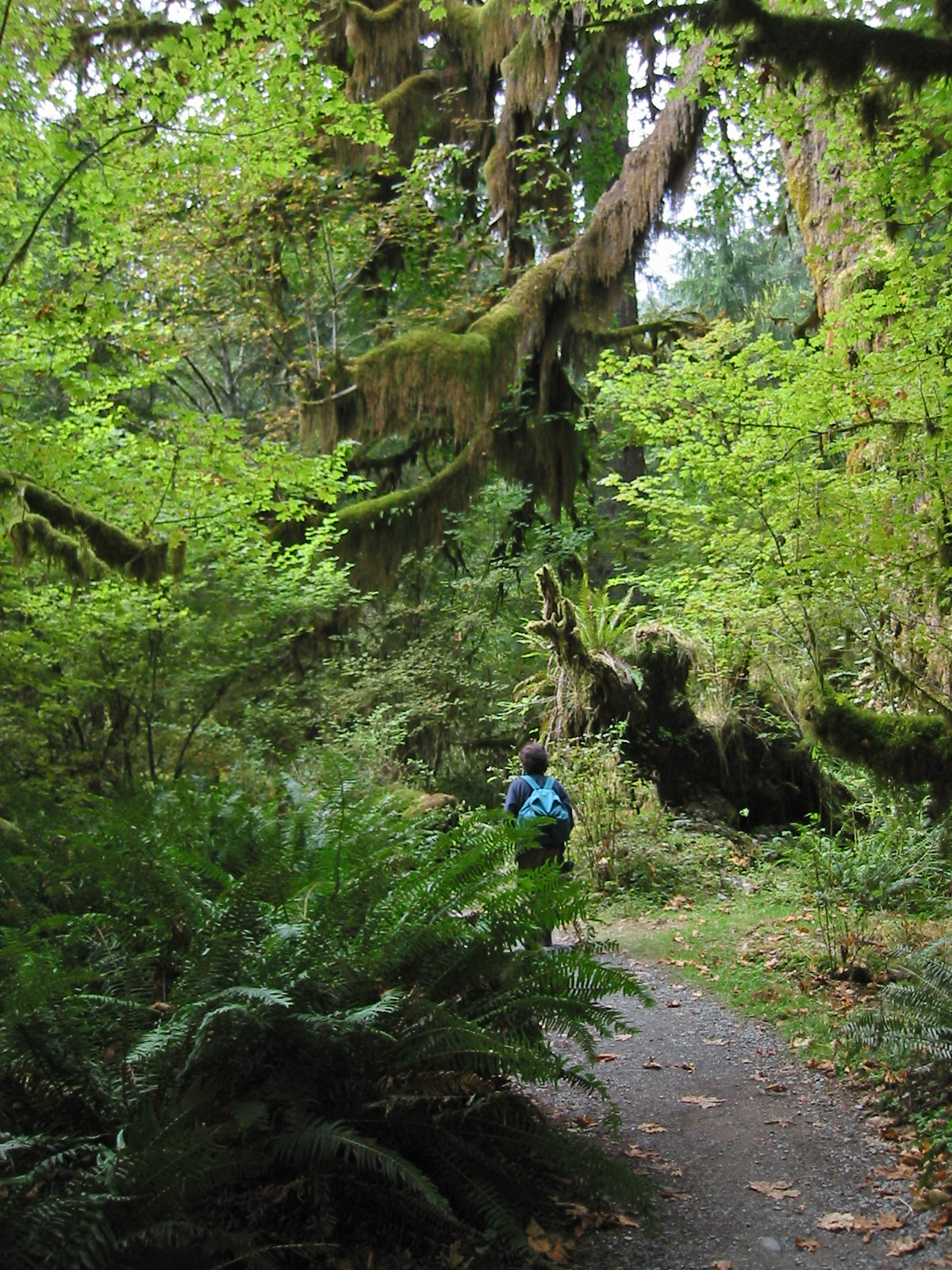 Vine Maple (light green leaves), Sword Fern (on both sides of trail), moss covered Bigleaf Maple limbs and roots, and hiker. Viewpoint location: Spruce Nature Trail about 0.1 km from the Hoh Rain Forest Visitor Center, near the end of the loop. The Hoh River Valley is located in Olympic National Park, Washington, USA. USGS Owl Mountain Quad Viewpoint elevation: 560'+ View direction: Northwest. Camera: Canon PowerShot S110 Photographer: Walter Siegmund ©2005 Walter Siegmund